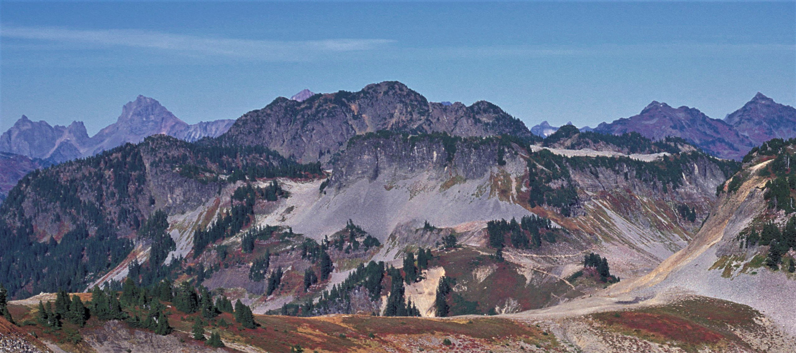 Mount Herman from SSW